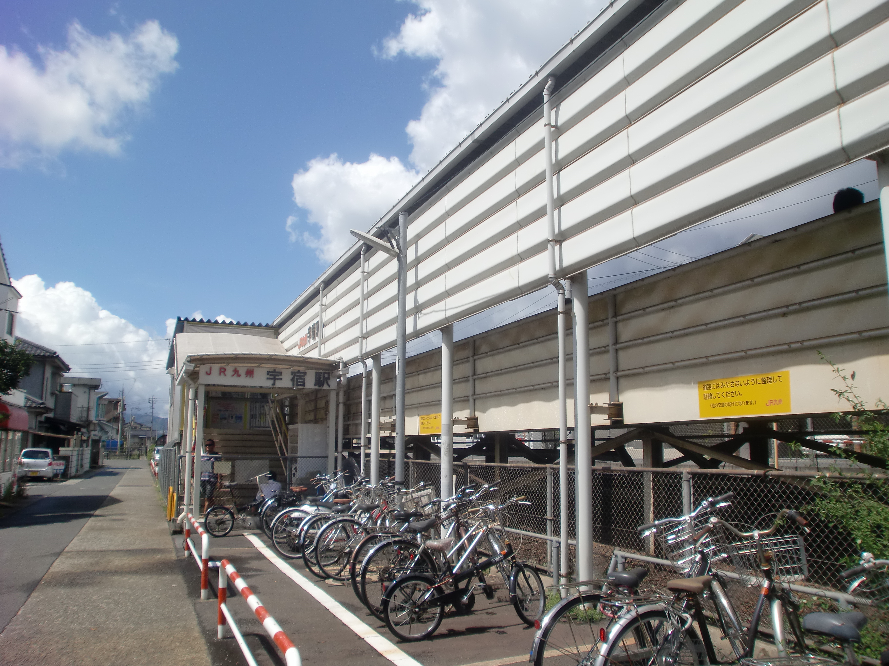 front of Usuki Station.